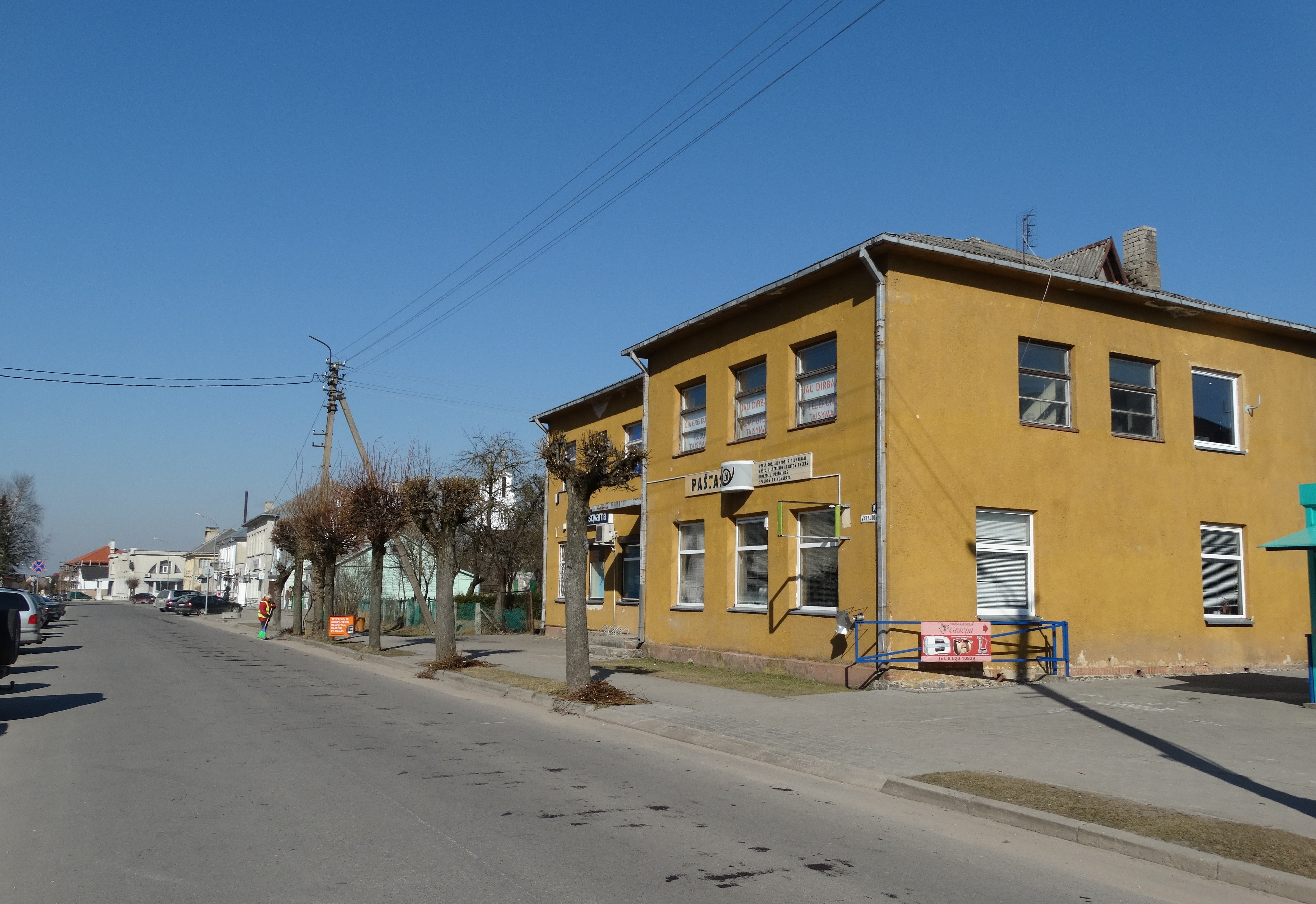 Post office, Ariogala, Raseiniai district, Lithuania